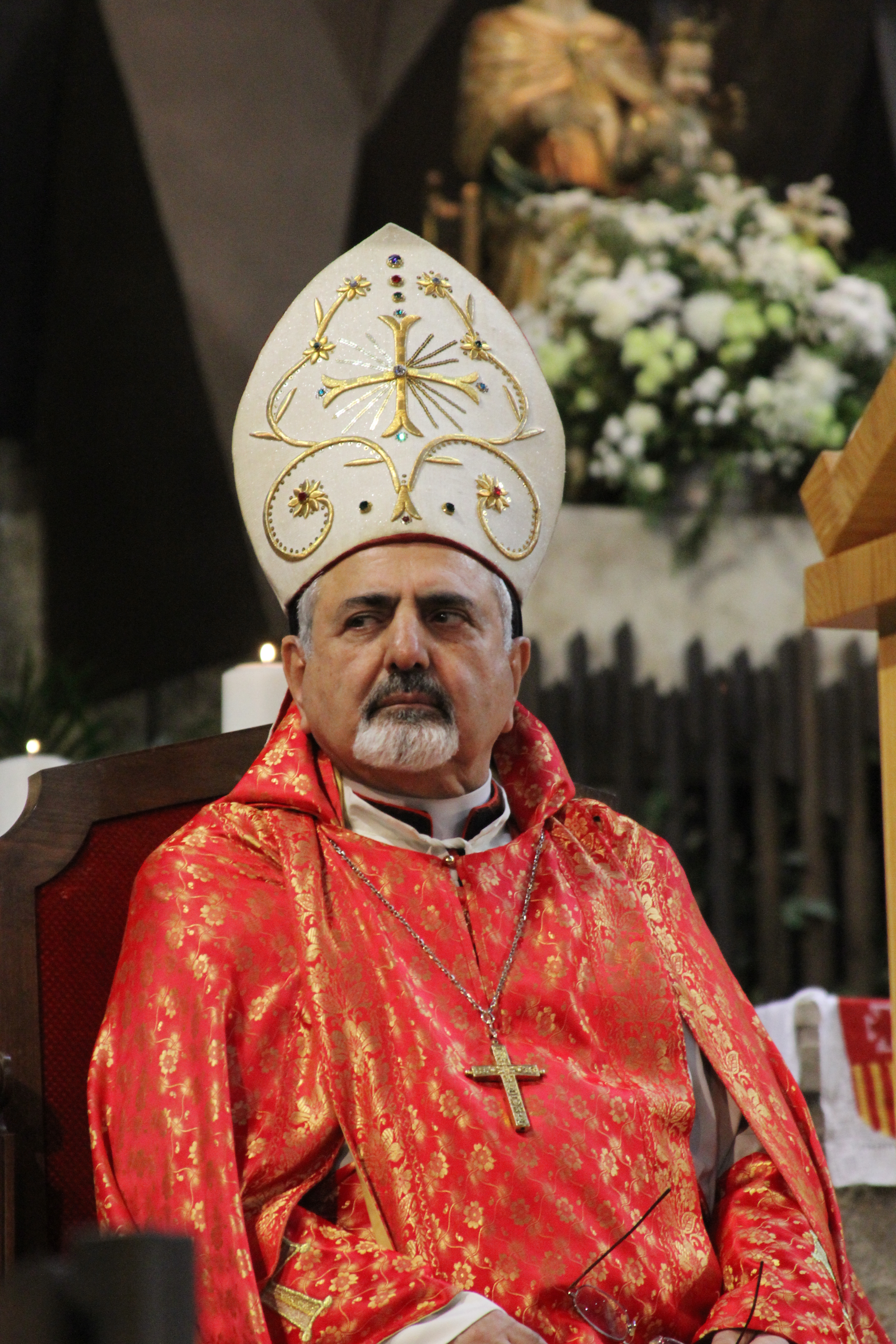 Le patriarche Ignatius Joseph III Younan.